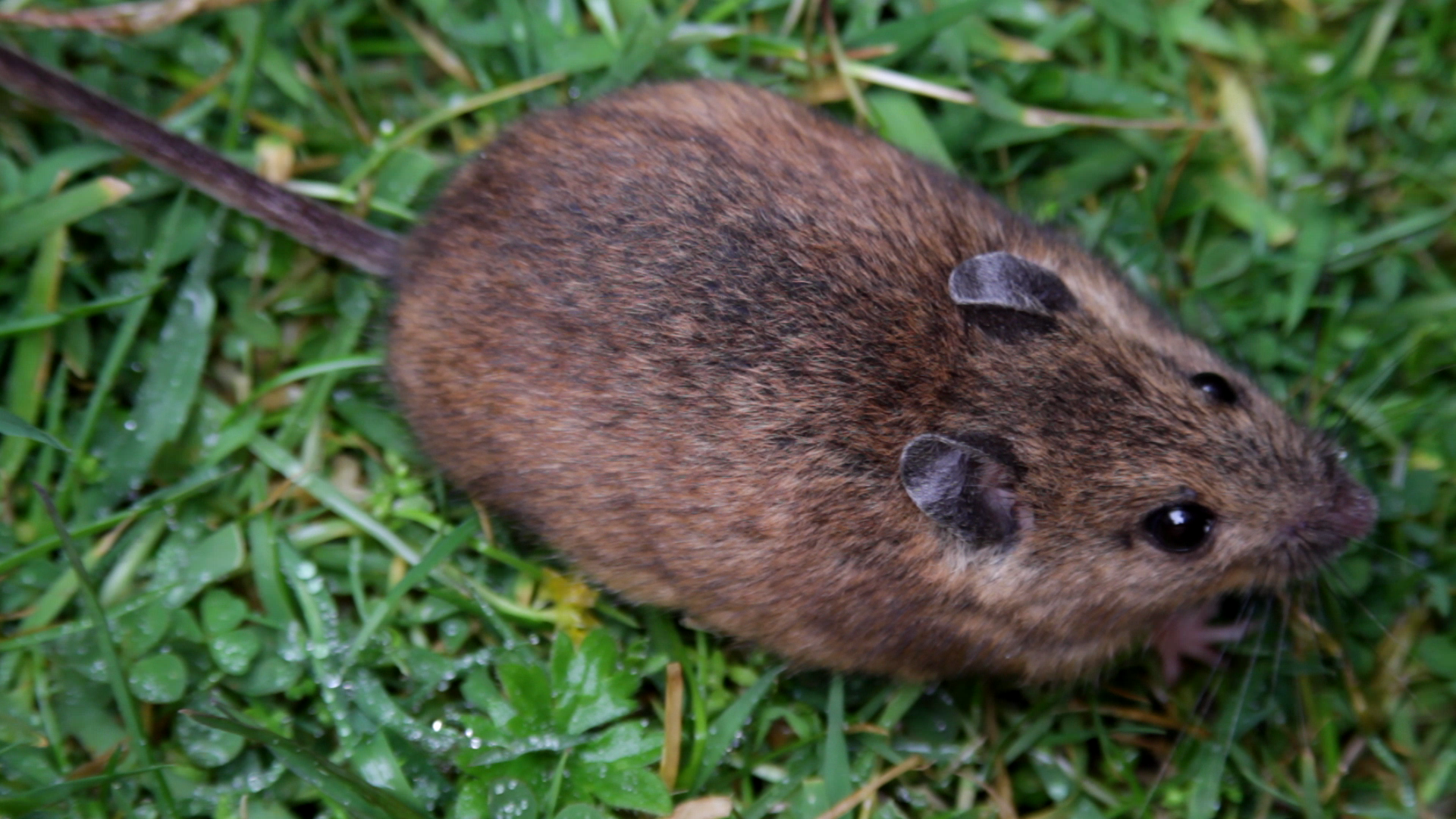 Screencap from a video I shot on St. Kilda of the St. Kilda field mouse (Apodemus sylvaticus hirtensis)